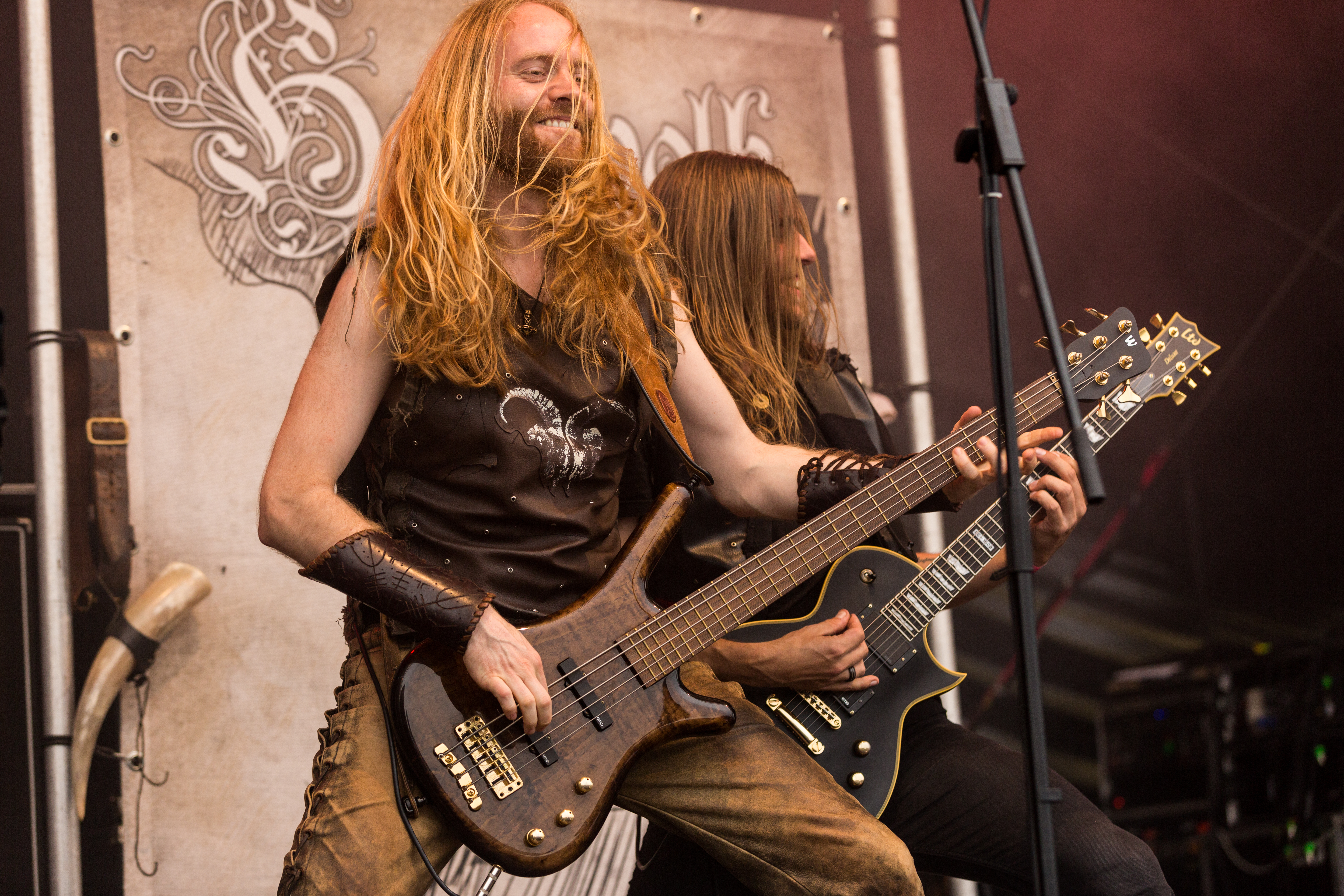 The Dutch folk an pagan metal band Heidevolk at the Metal Frenzy 2017 in Gardelegen/Germany.